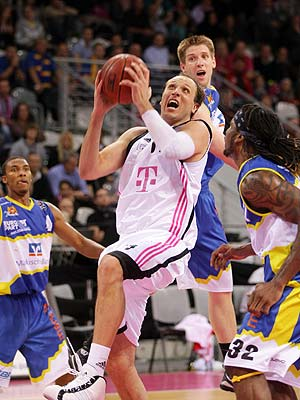 basketball player